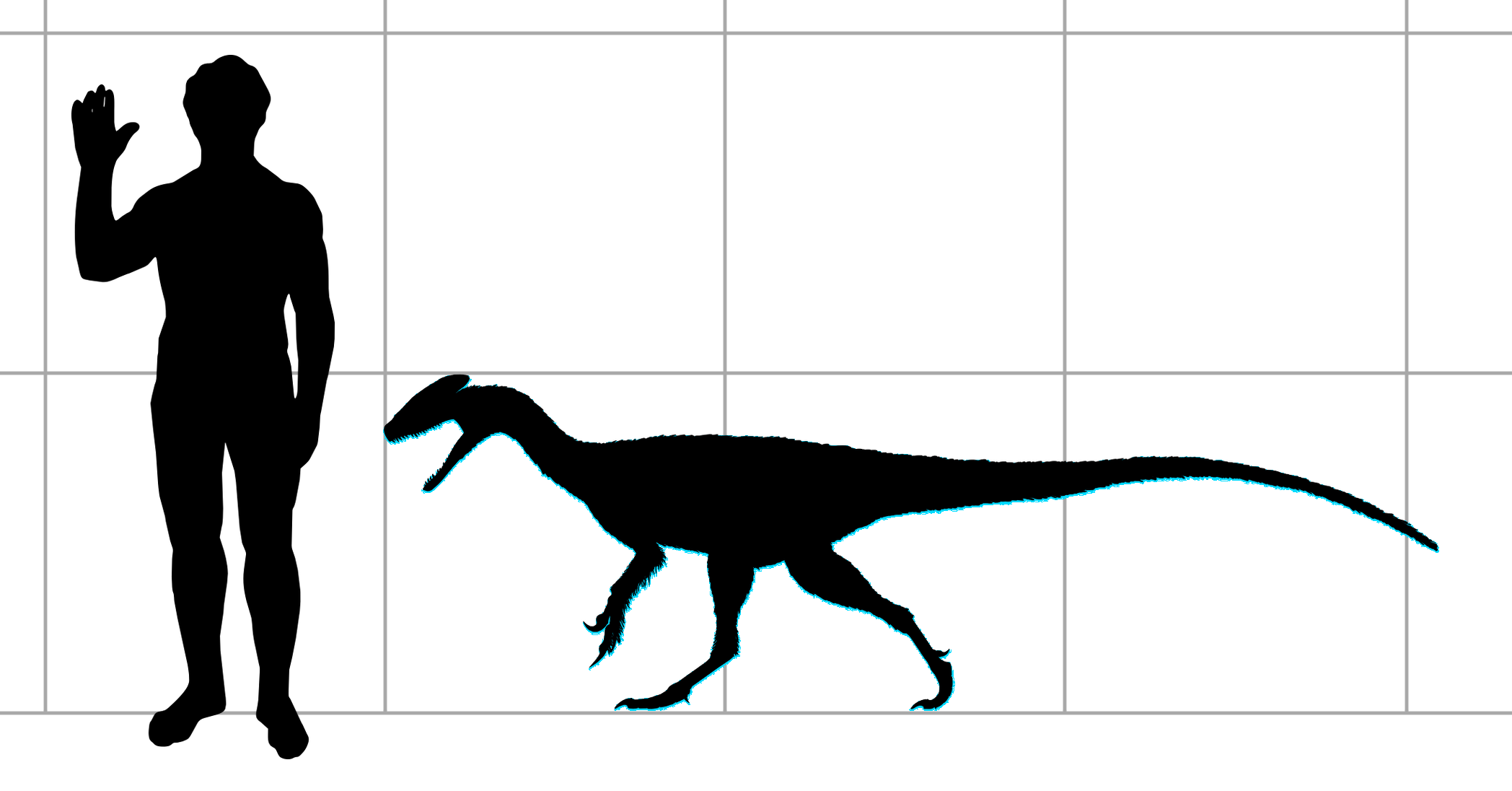 Scale diagram comparing a silhouette of the tyrannosauroid Guanlong, with a human silhouette. Scale boxes are 1 metre (3.3 ft) tall and 1 metre (3.3 ft) wide. Guanlong is just over 3 metres (9.8 ft) long, and the human is 1.85 metres (6.1 ft) tall.